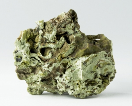 Hidalgoite Locality: Gold Hill Mine (Western Utah Mine), Gold Hill, Gold Hill District (Clifton District), Deep Creek Mts, Tooele Co., Utah, USA Size: 6.4 x 5.2 x 2.7 cm Hidalgoite is a rare lead aluminum arsenate-sulfate and this very rich and uncommon small cabinet is from the Gold Hill Mine of Utah. All sides of the vuggy matrix wedge are richly covered with pretty pastel-green hidalgoite, either as massive crusts, striking, swirl-like patterns or tiny botryoids of hidalgoite. The crest holds a major, hidden surprise of a 2.5 cm vug lined with larger, greenish-yellow hidalgoite botryoids. Outstanding and rich older material from the Ed Bancroft Collection and accompanied by a Ward’s label.